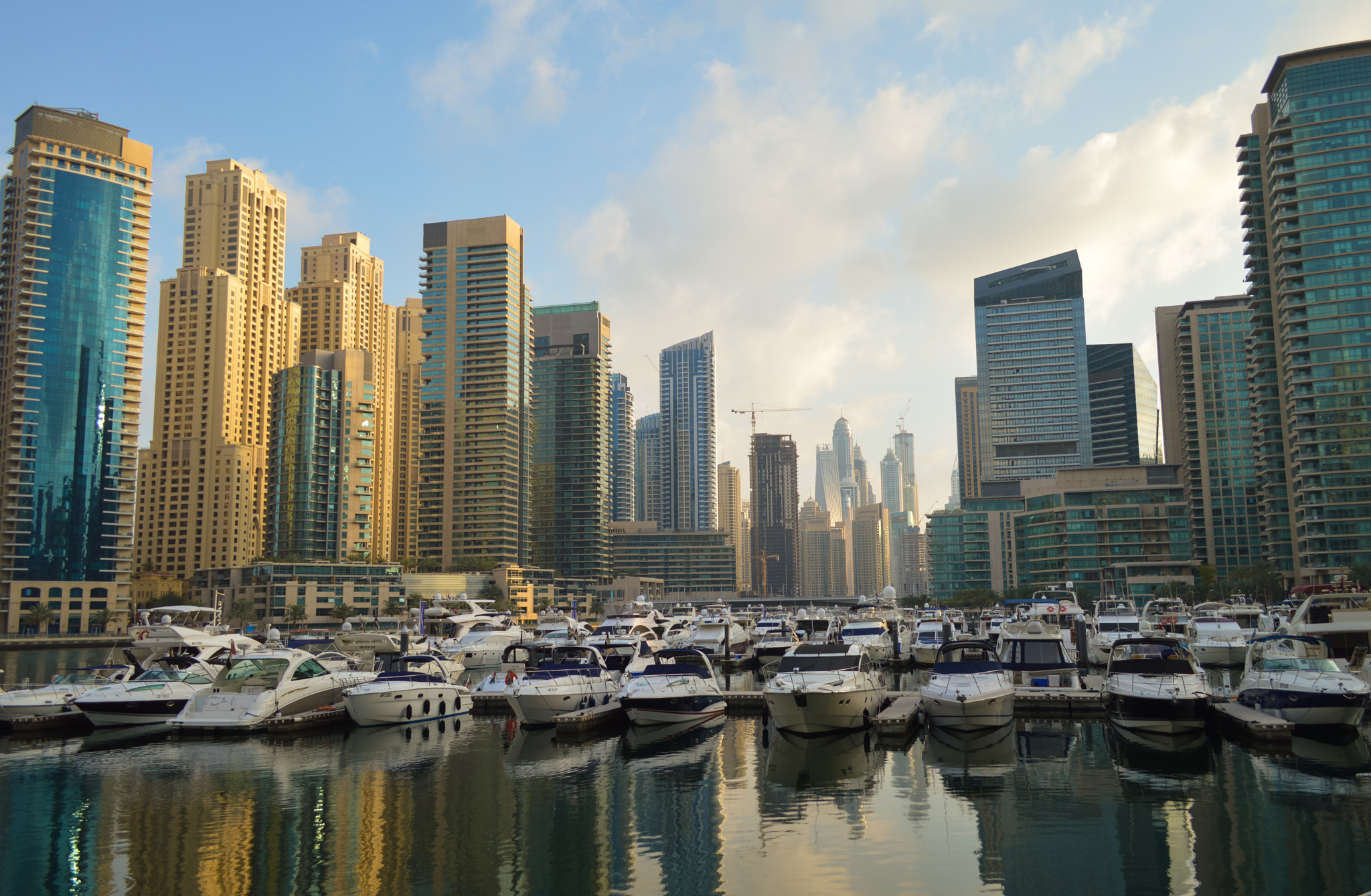 500px provided description: Dubai Marina [#sea ,#sunset ,#water ,#boat ,#reflection ,#beach ,#travel ,#blue ,#night ,#sun ,#clouds ,#ocean ,#urban ,#architecture ,#building ,#pier ,#marina ,#skyline ,#riverside ,#quay ,#highrise ,#waterfront ,#harbor ,#city skyline ,#lake union]